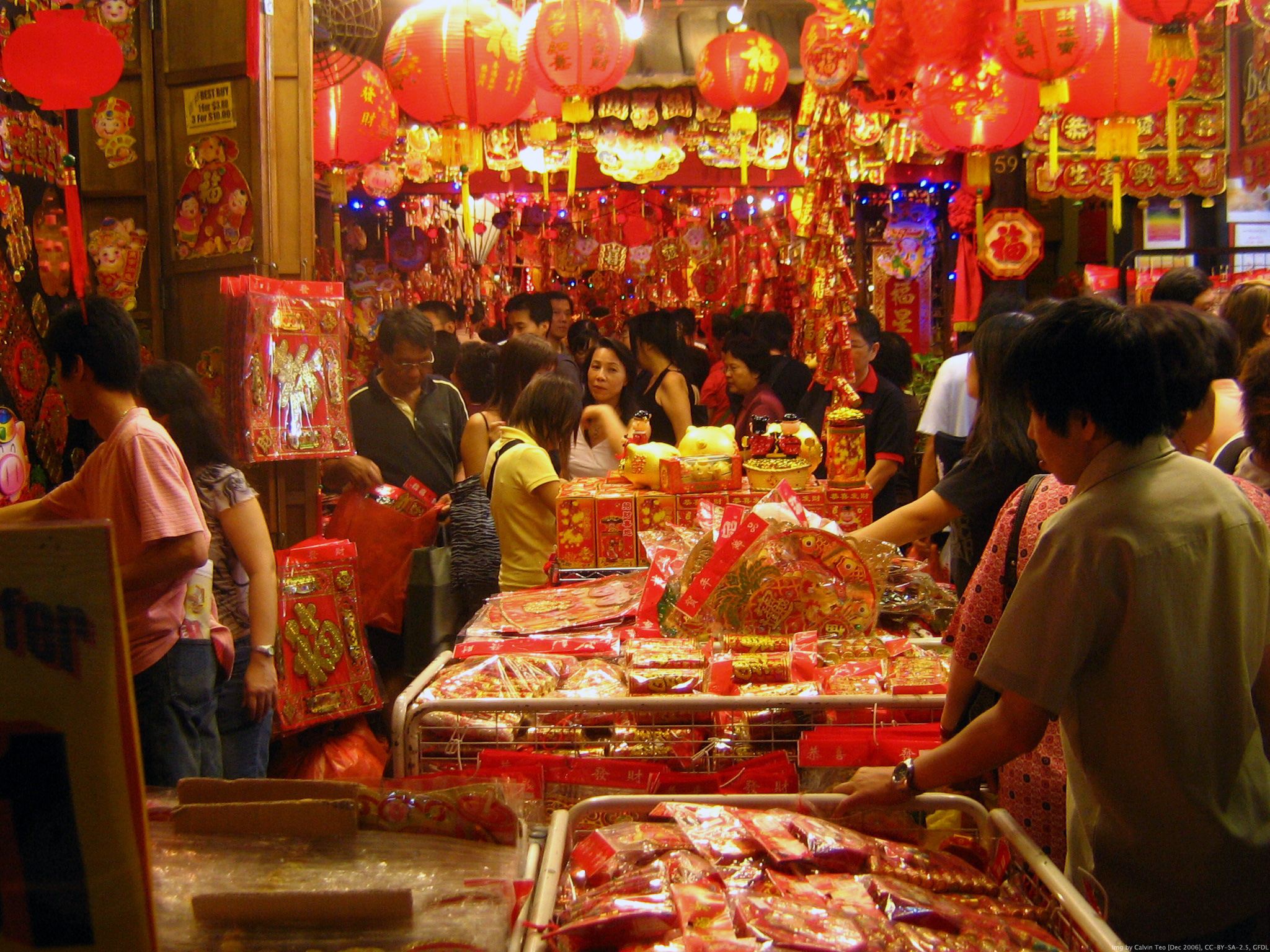 A scene in a street market in Chinatown, Singapore, during the Chinese New Year holidays.